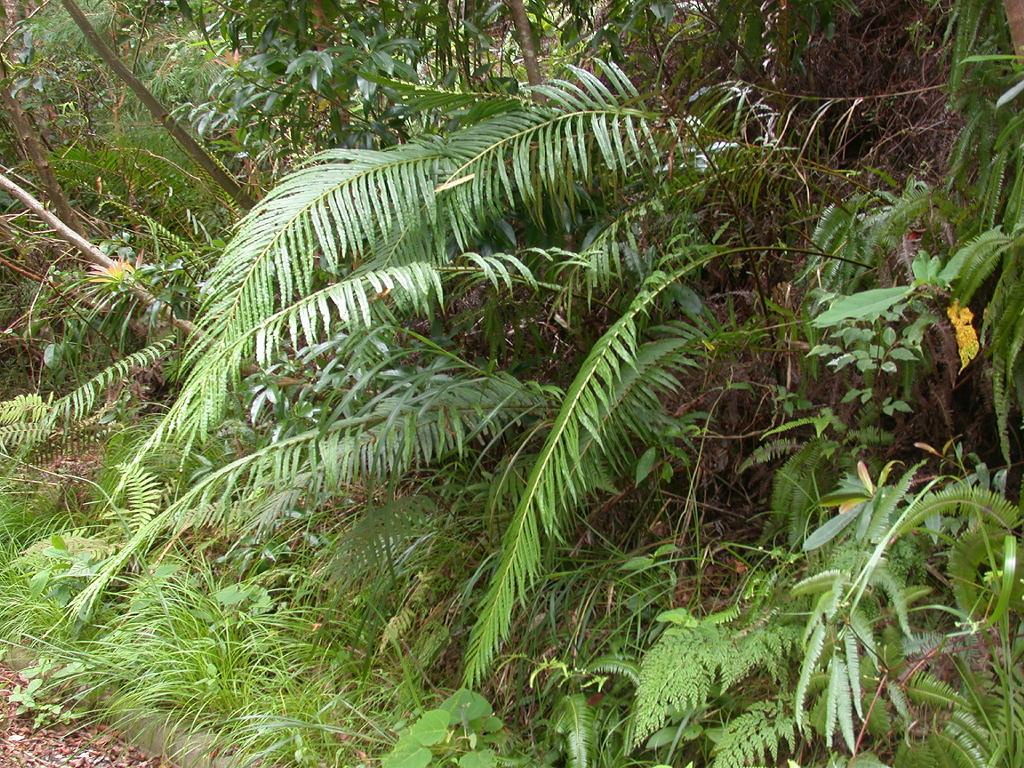 Blechnum orientale